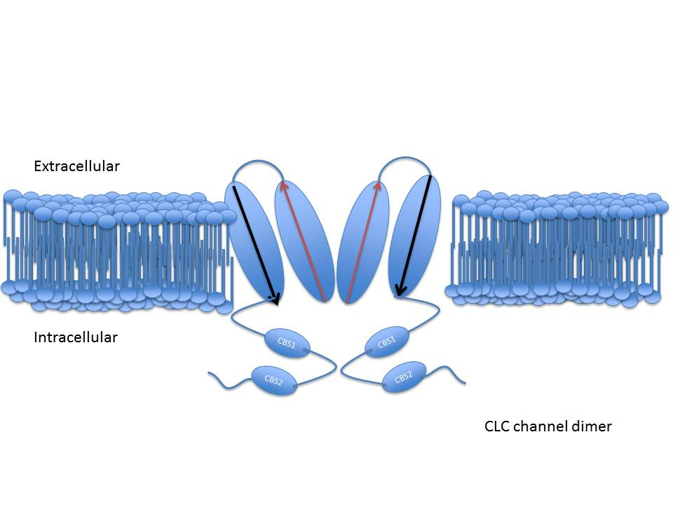 Cartoon schematic of the basic architecture of a CLC chloride channel